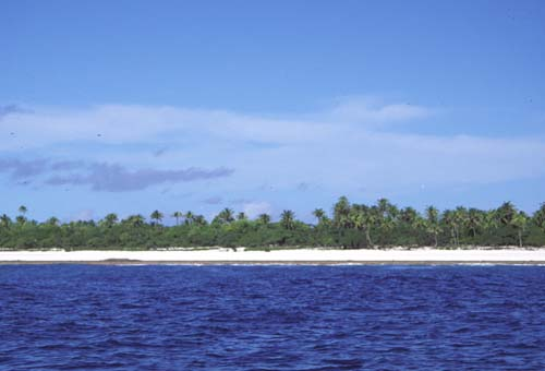 View of Takutea Islet's shoreline from the sea, Cook Islands. Original field notes: No true landing here, just land across the reefs by jumping out of a boat. Takutea is a beautiful small (1.2 sq km), uninhabited island, and a Wildlife Sanctuary, managed by traditional Atiu chiefs on nearby Atiu.